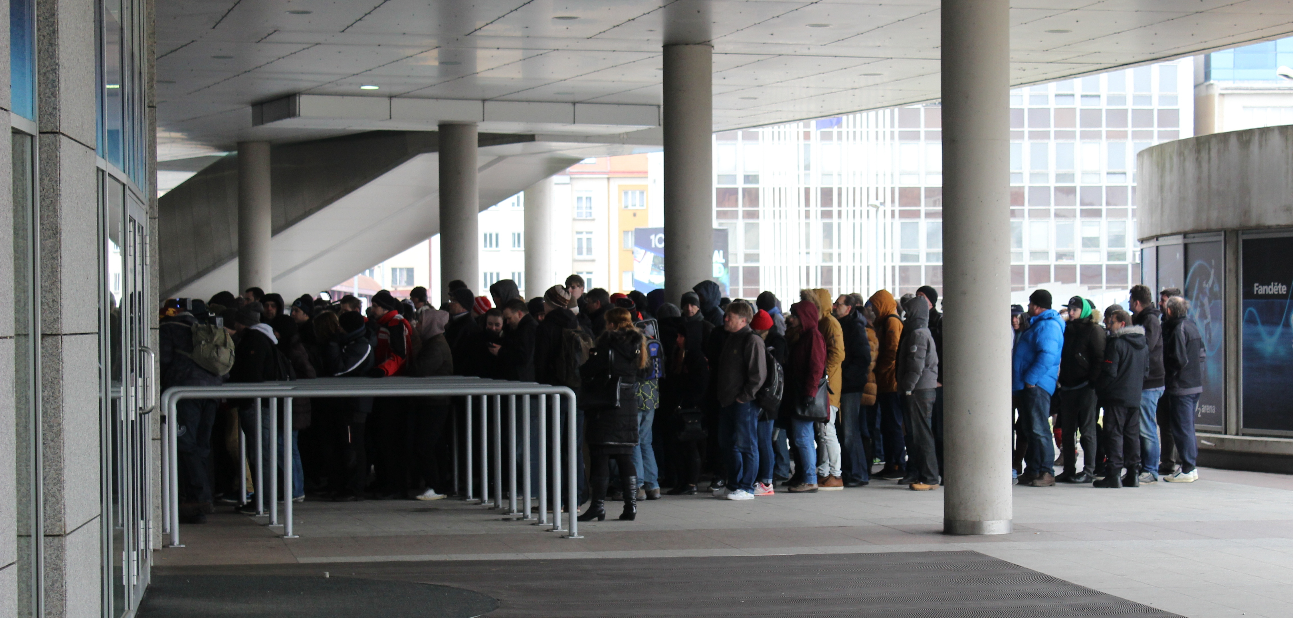 Queues in front of Prague's O2 Arena in presale tickets for Ice Hockey World Championships 2015.